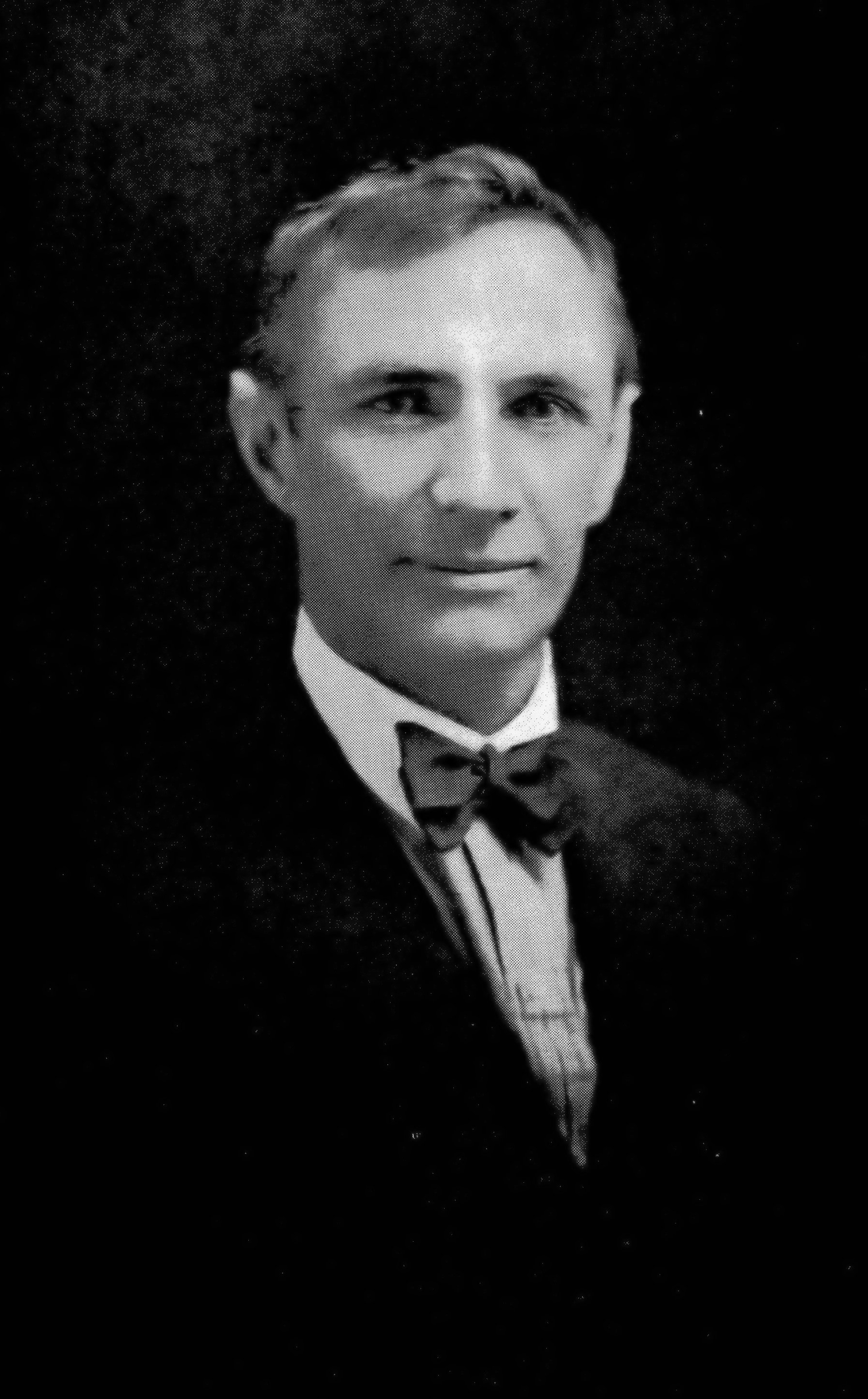 Portrait of Allan Riverstone McCulloch